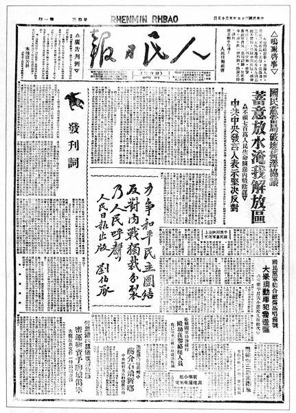 People's Daily inaugural issue of 1946-05-15's very first version